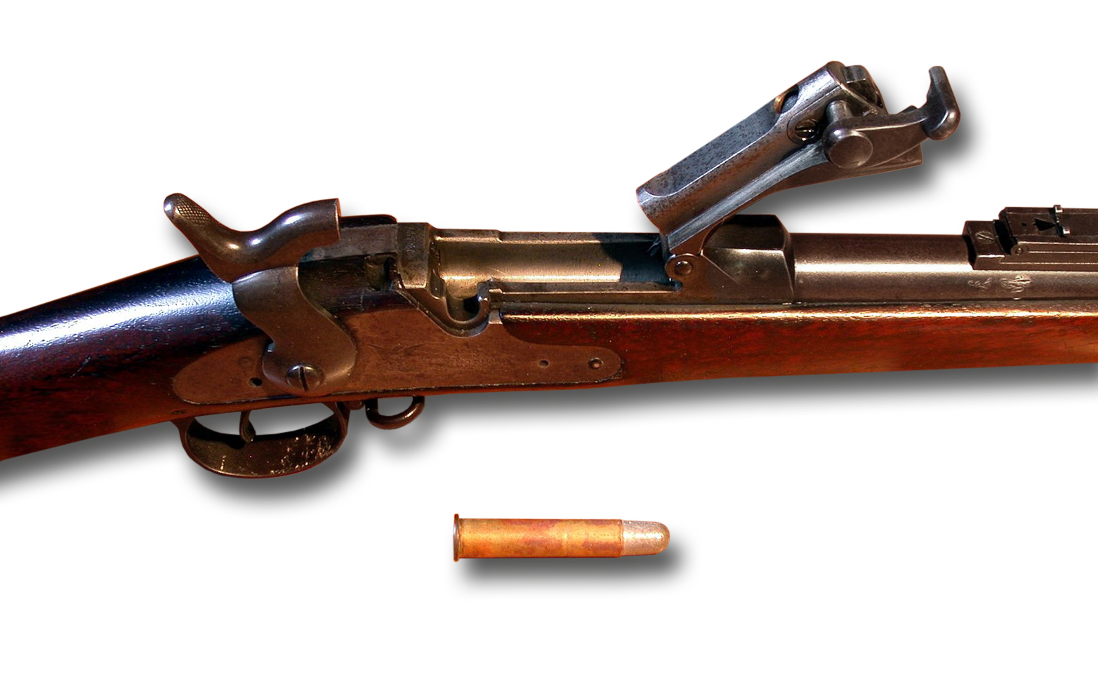 Springfield Trapdoor breech open